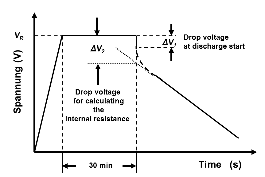 Measuring of the internal resistance of supercapacitors